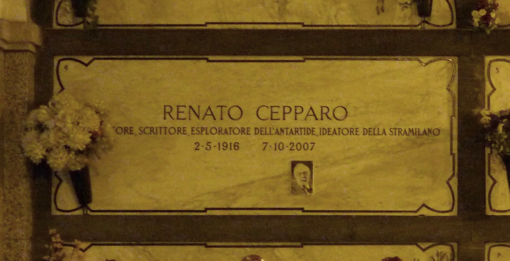 The grave of Italian entrepreneur Renato Cepparo at the Monumental Cemetery of Milan, Italy.